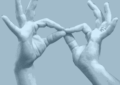 Created by cropping bar off of File:Interpbleu.gif. I don't think it's necessary on that file, but it's five years old, and so I'll leave well enough alone. Derivative of PD file, too simple to copyright in itself.